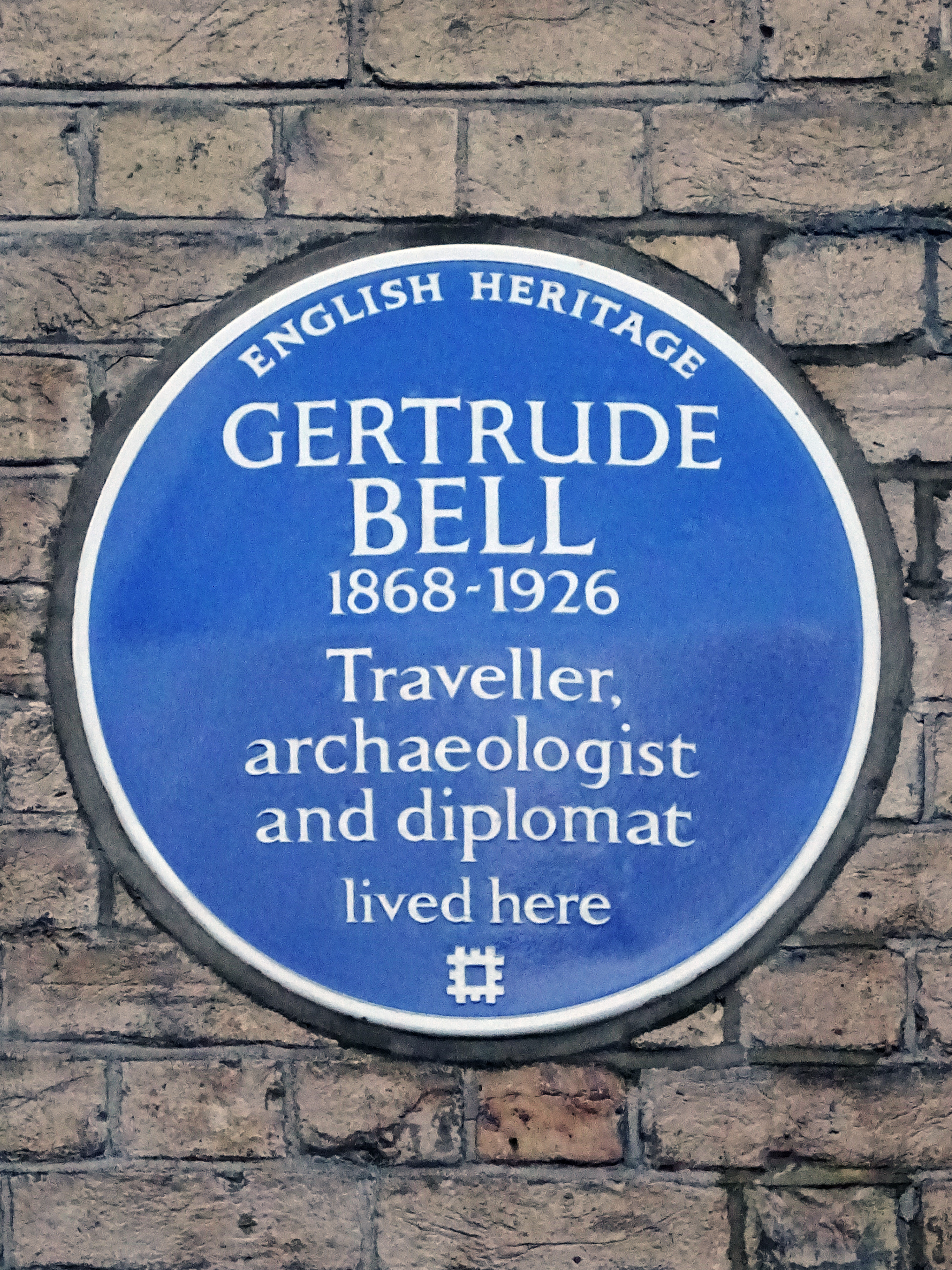 Blue plaque erected on 7th November 2019 by English Heritage at 95 Sloane Street, Chelsea London SW1X 9PQ